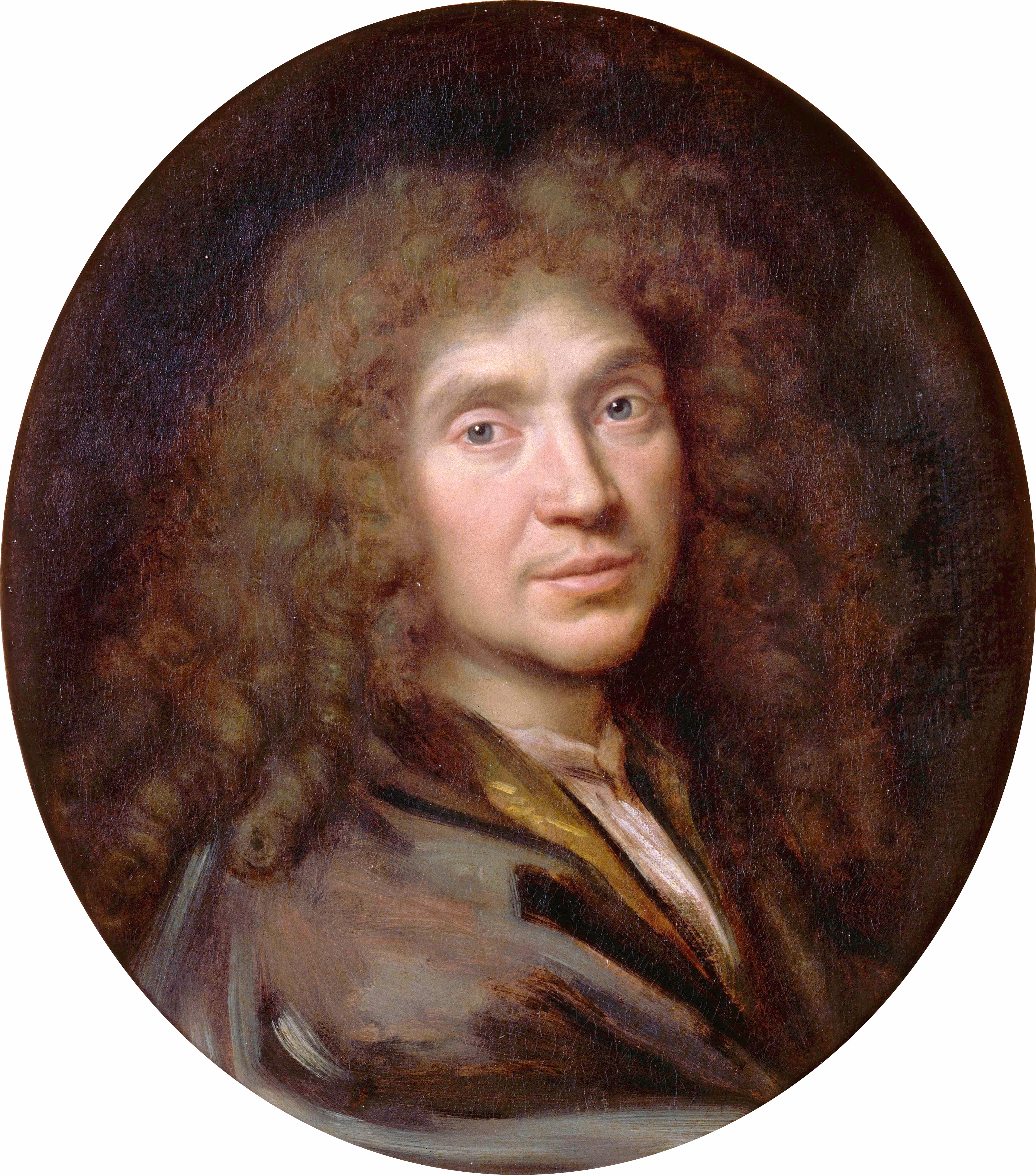 Portrait of Molière painted at Avignon c. 1658, after which Molière and the artist formed a lasting friendship